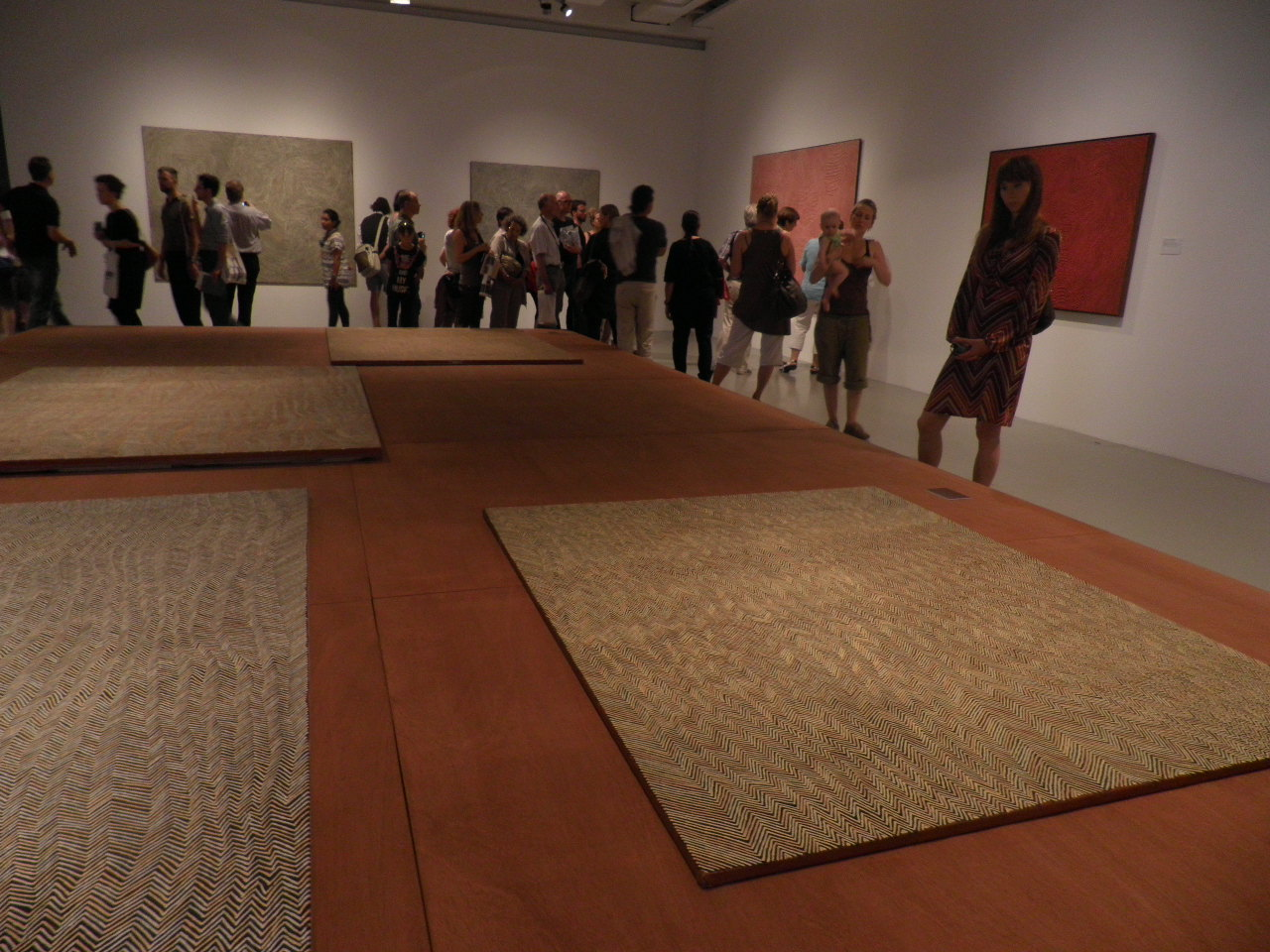 People seeing Doreen Reid Nakamarra (1950 in Warburton Ranges, Ngaanyatjarra Lands, Bison Desert, Australia) and Warlimpirrnga Tjapaltjarri (1958 near Kiwirrkurra in Gibson Desert, Australia) paintings inside the Museum Fridericianum in Kassel, Hesse, Germany during dOCUMENTA (13). Doreen Reid Nakamarra and Warlimpirrnga Tjapaltjarri are both members of Papunya Tula Arsists collective.